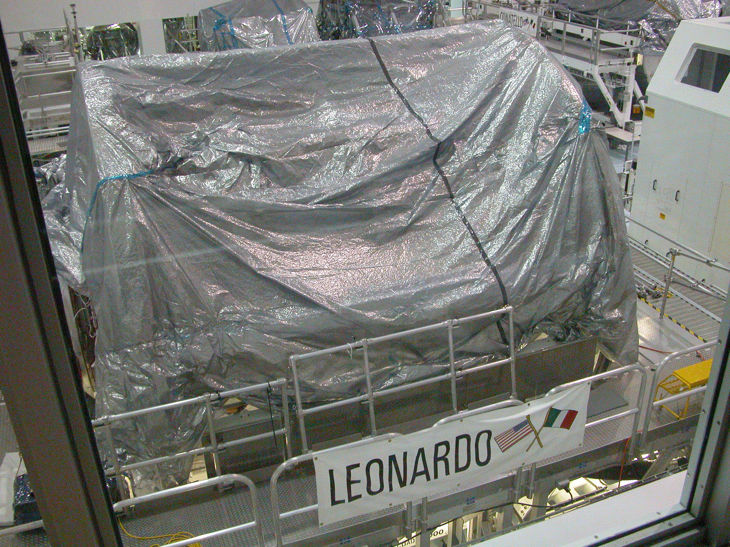 The Italian module Leonardo, built by Alenia Spazio, at the John F. Kennedy Space Center.